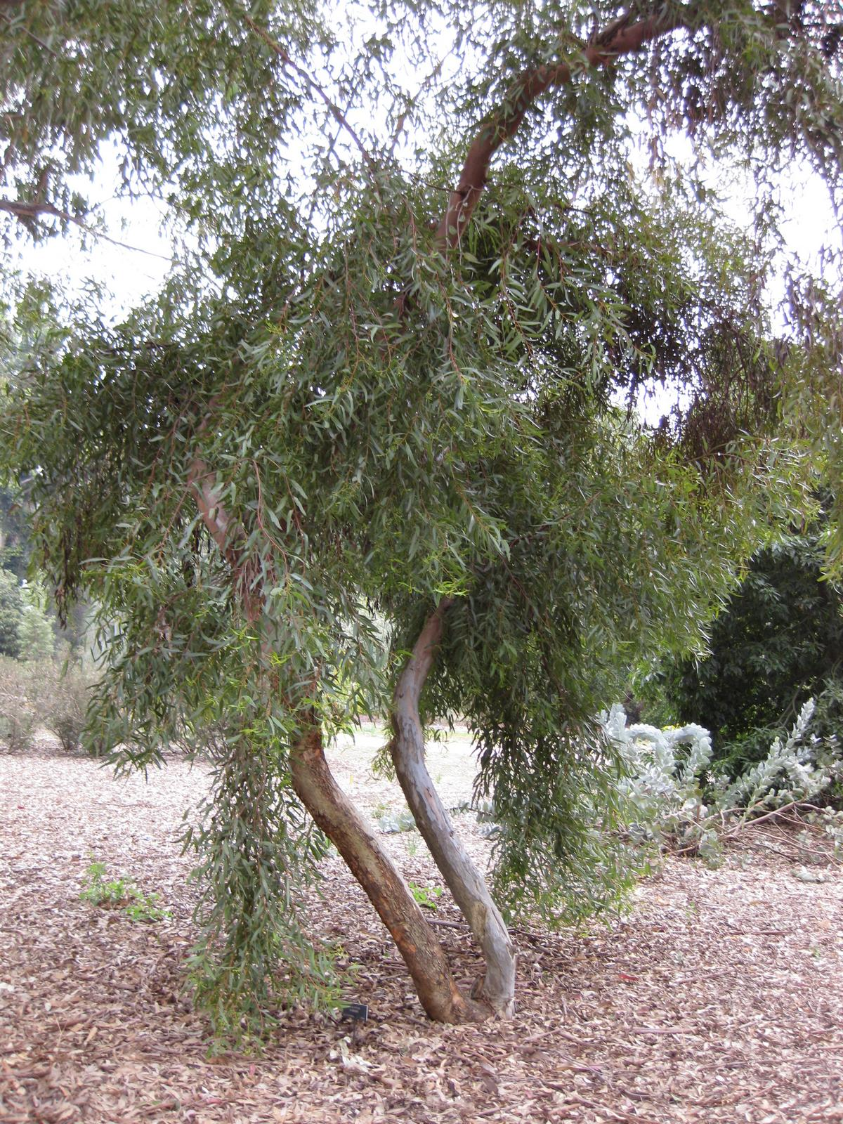 Photographed at Huntington Gardens (Los Angeles) in April